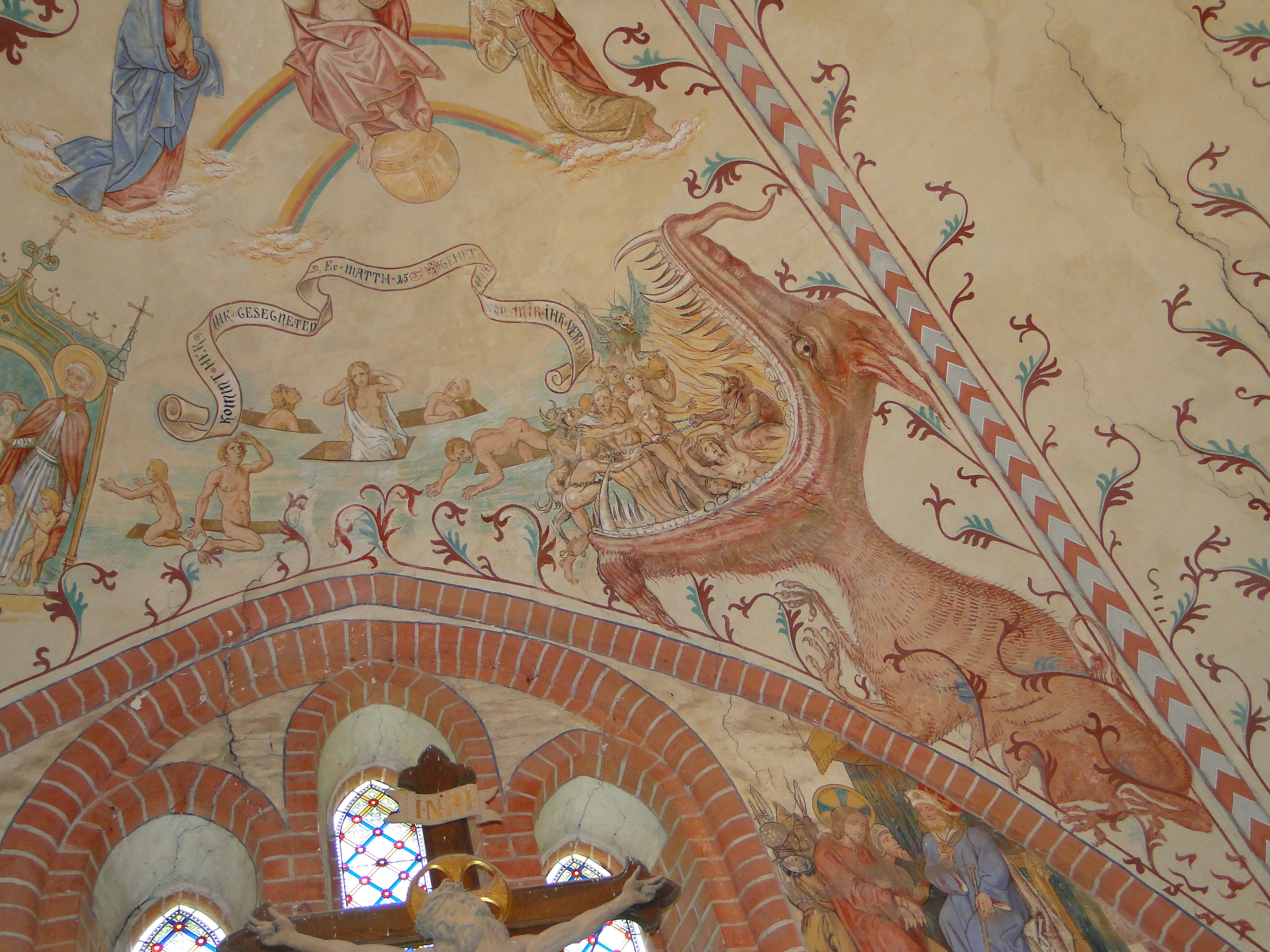 Church in Lohmen, district Güstrow, Mecklenburg-Vorpommern, Germany